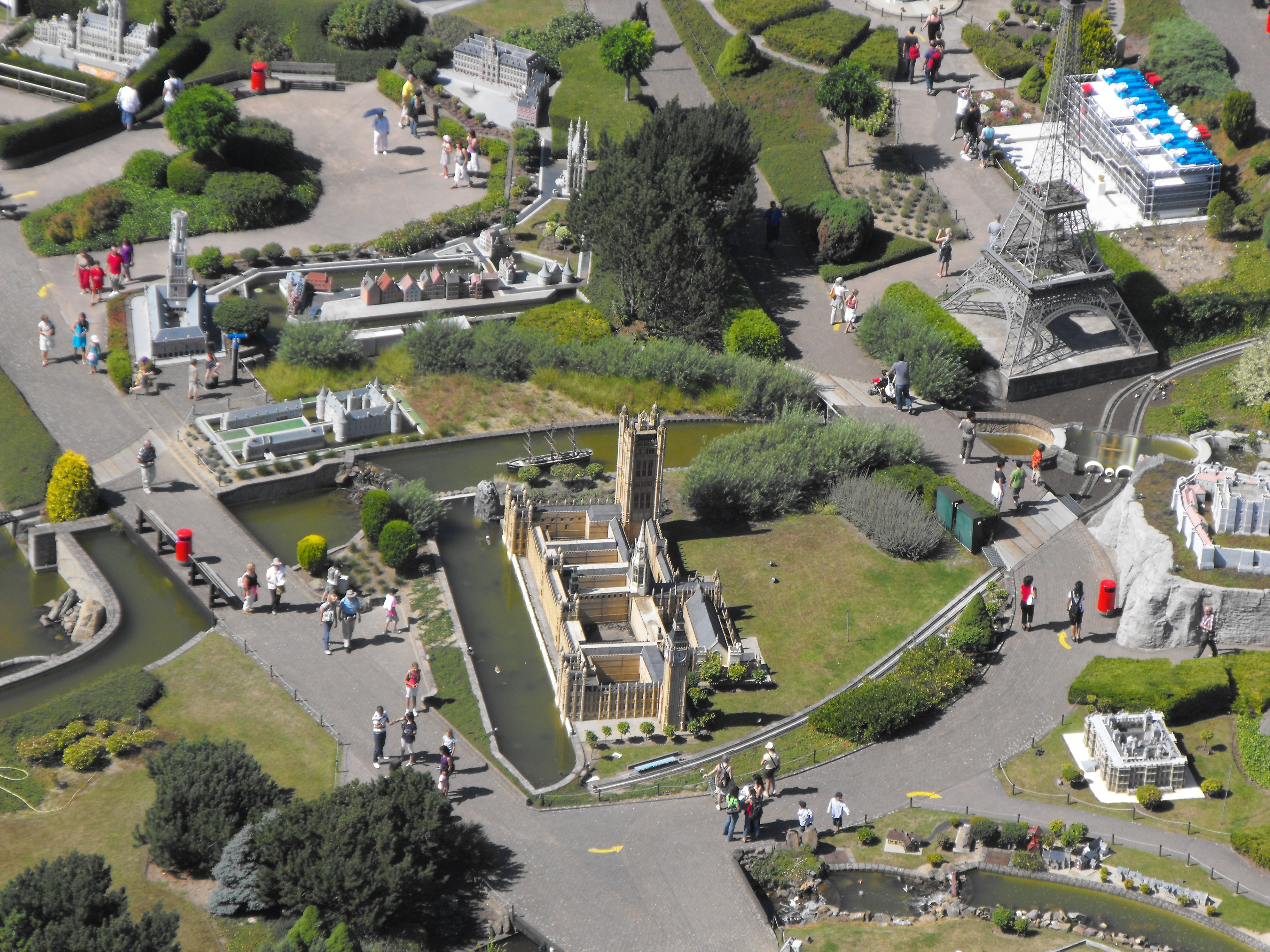 View of site from Atomium